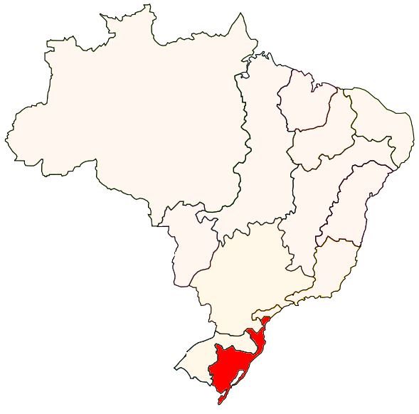 Hydrographics regions in Brazil - Atlântico Sul